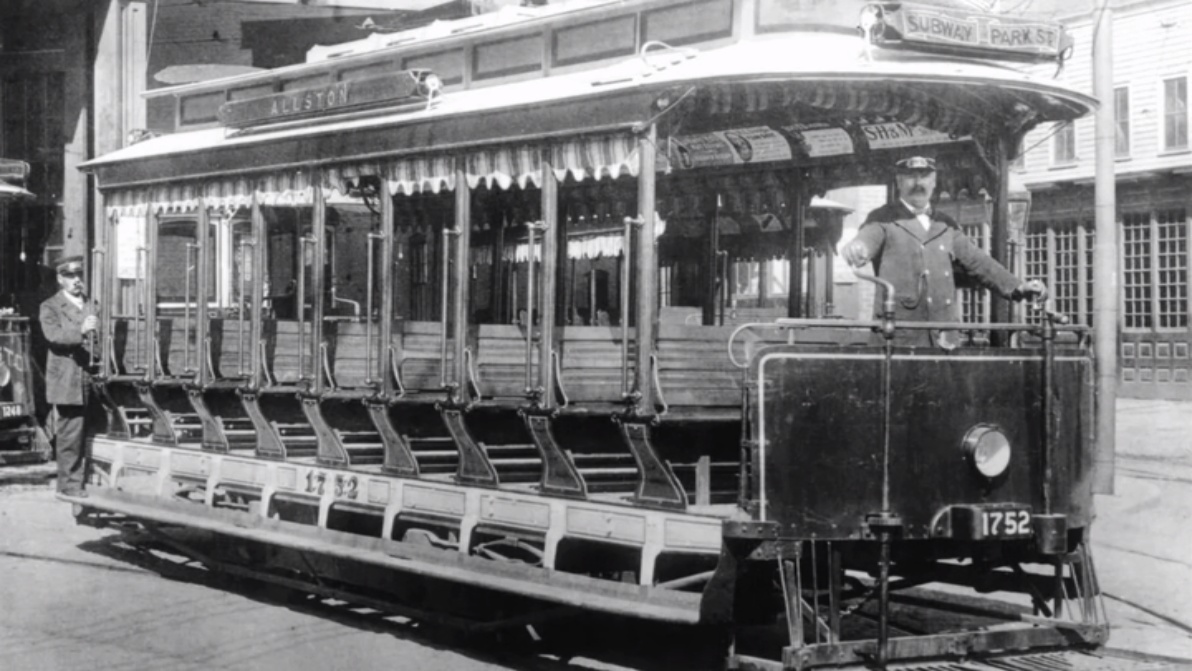 Motorman James Reed (right) and conductor George Truffant pose with their car at the Allston Carhouse on September 1, 1897. Several hours before, they had been the first revenue car through the Tremont Street Subway, running from Pearl Street (Cambridge) via Allston. The car entered the Boylston Street portal around 6:00 am carrying over 100 riders. This also marks the beginning of subway traffic in the United States.